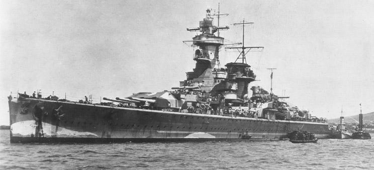 Battleship Admiral Graf Spee - Battle of the River Plate - WWII